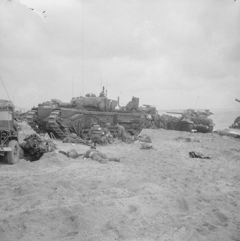 D-day - British Forces during the Invasion of Normandy 6 June 1944 Medics attending to wounded in the lee of a Churchill AVRE from 5th Assault Regiment, Royal Engineers, on Queen beach, Sword area, 6 June 1944. An M10 Wolverine 3-inch self-propelled gun from 20th Anti-Tank Regiment can be seen in the background.